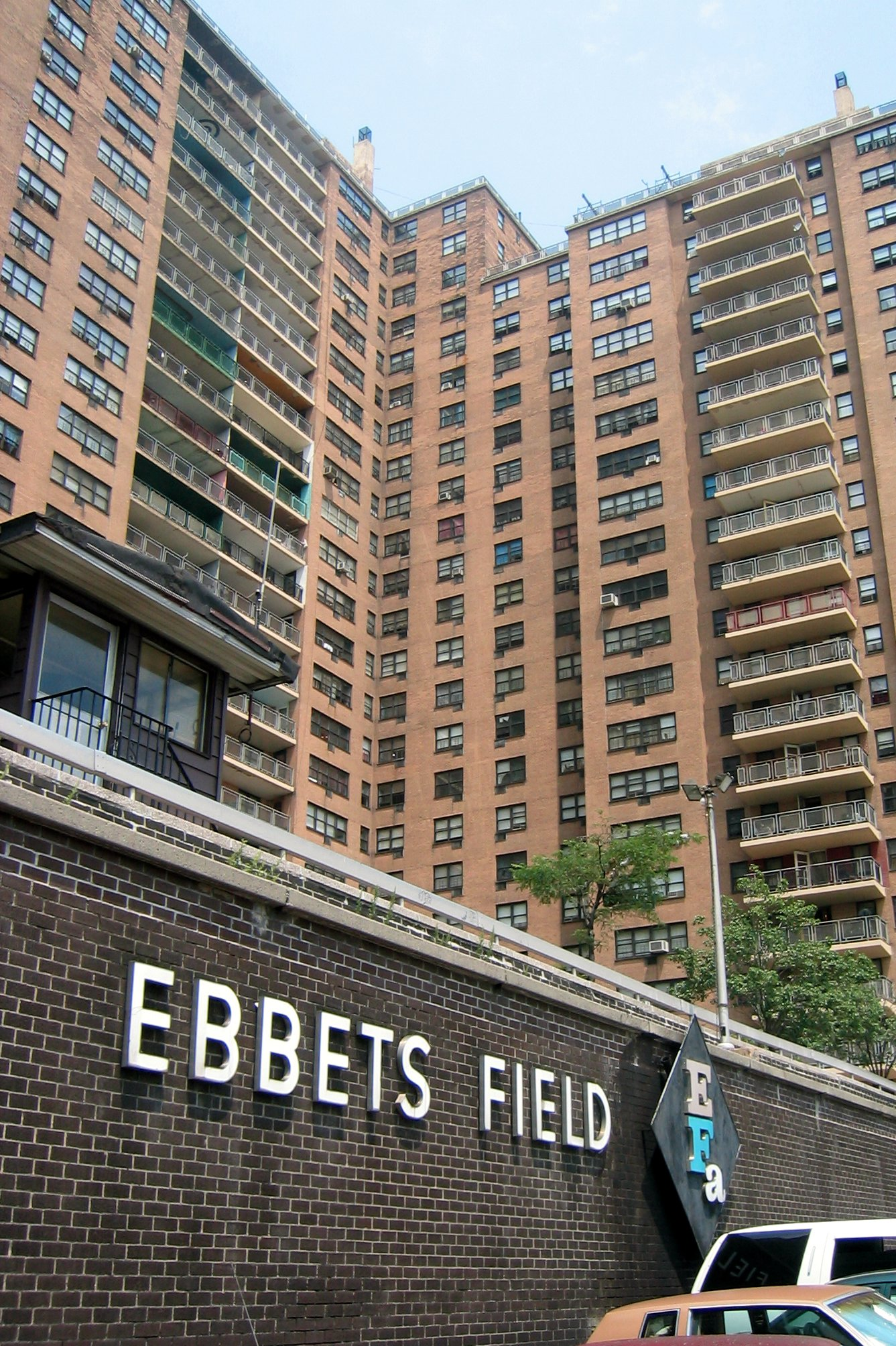 Jackie Robinson Apartments / Ebbets Field Apartments